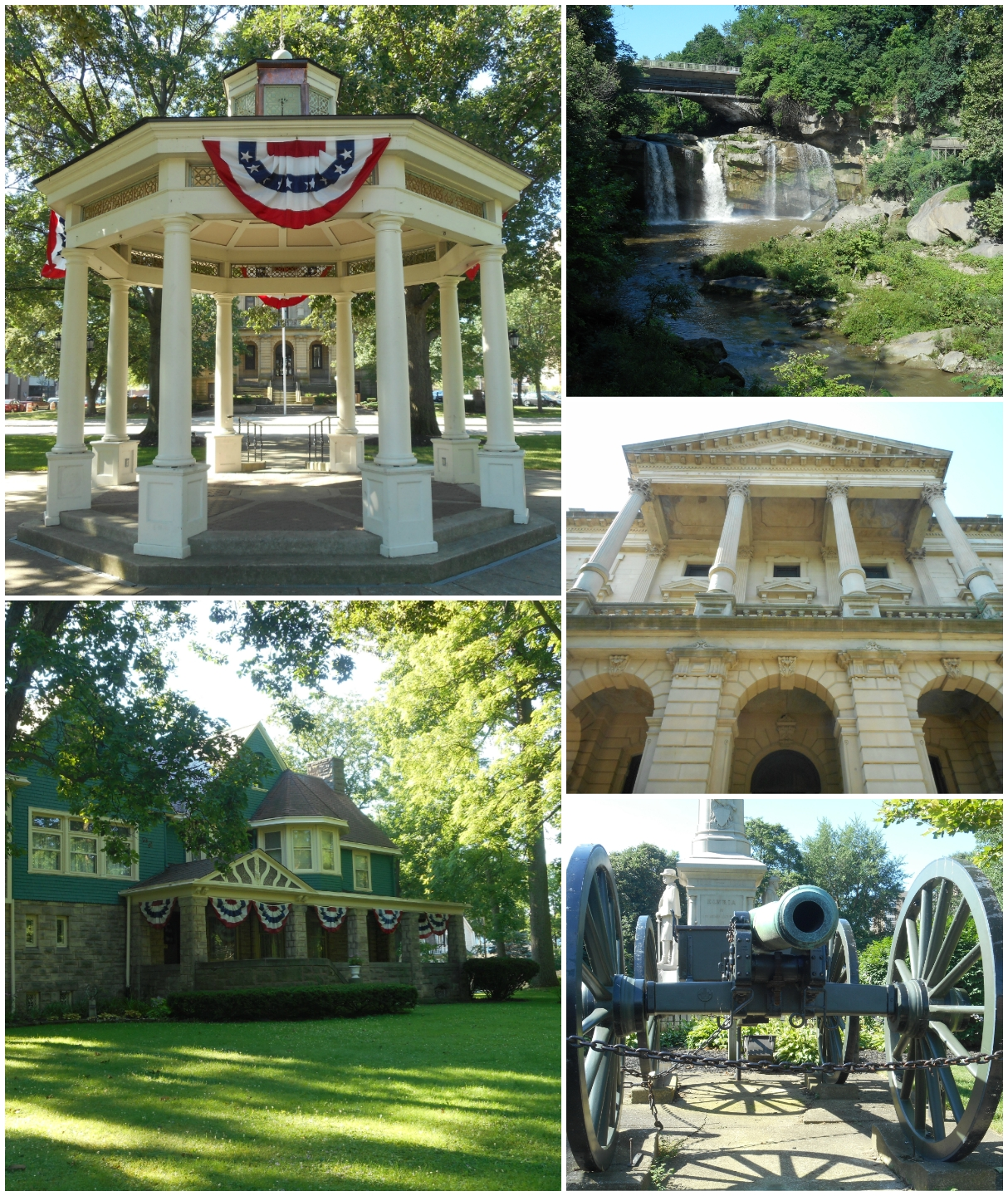 Collage of Elyria, Ohio